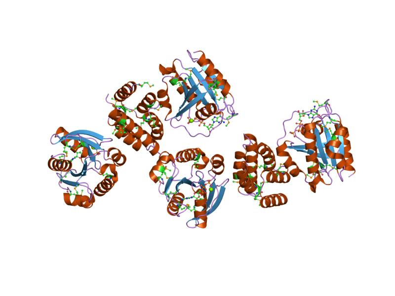 Cartoon representation of the molecular structure of protein registered with 1upt code.